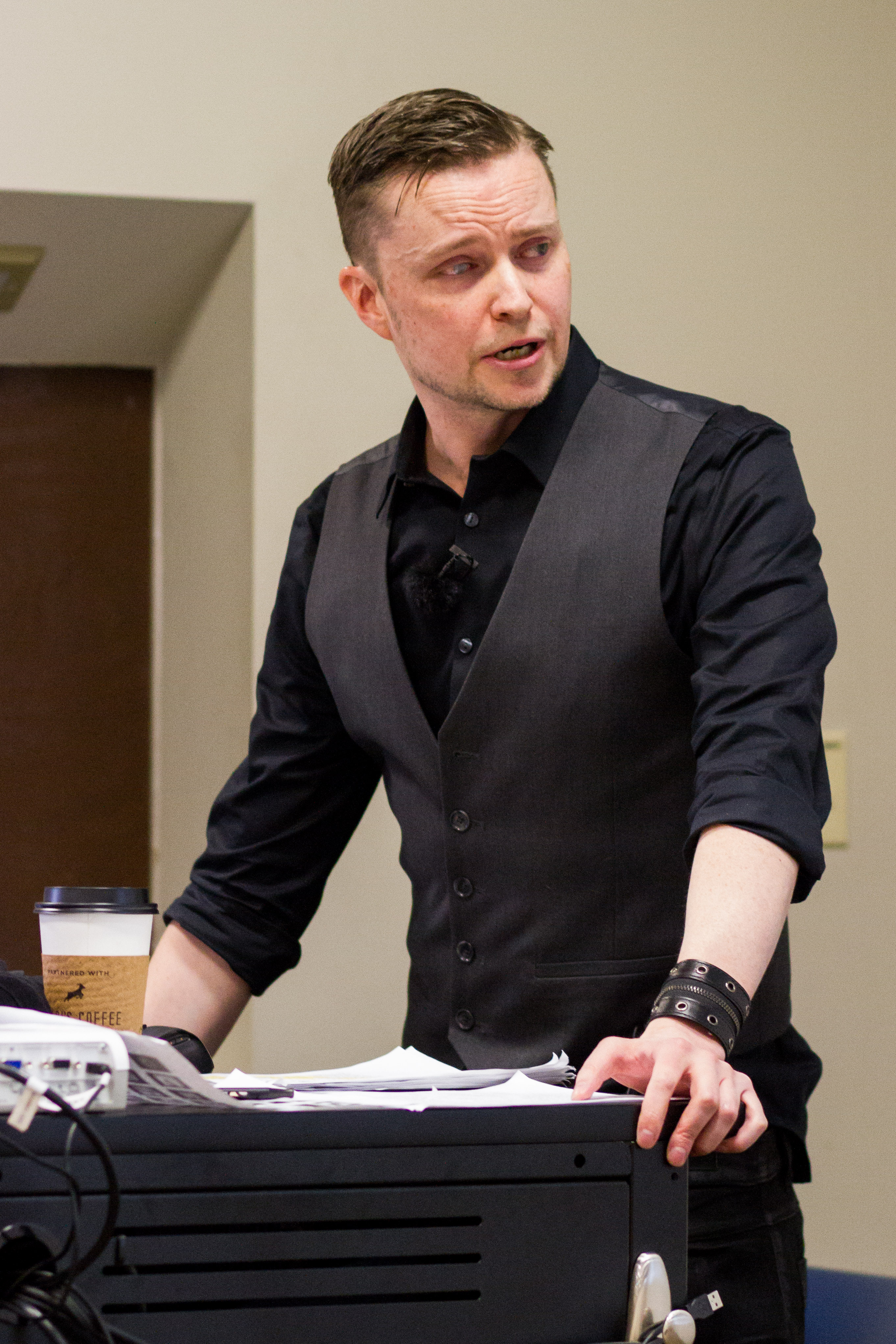 The Satanic Temple co-founder Lucien Greaves speaks at SASHAcon 2016.